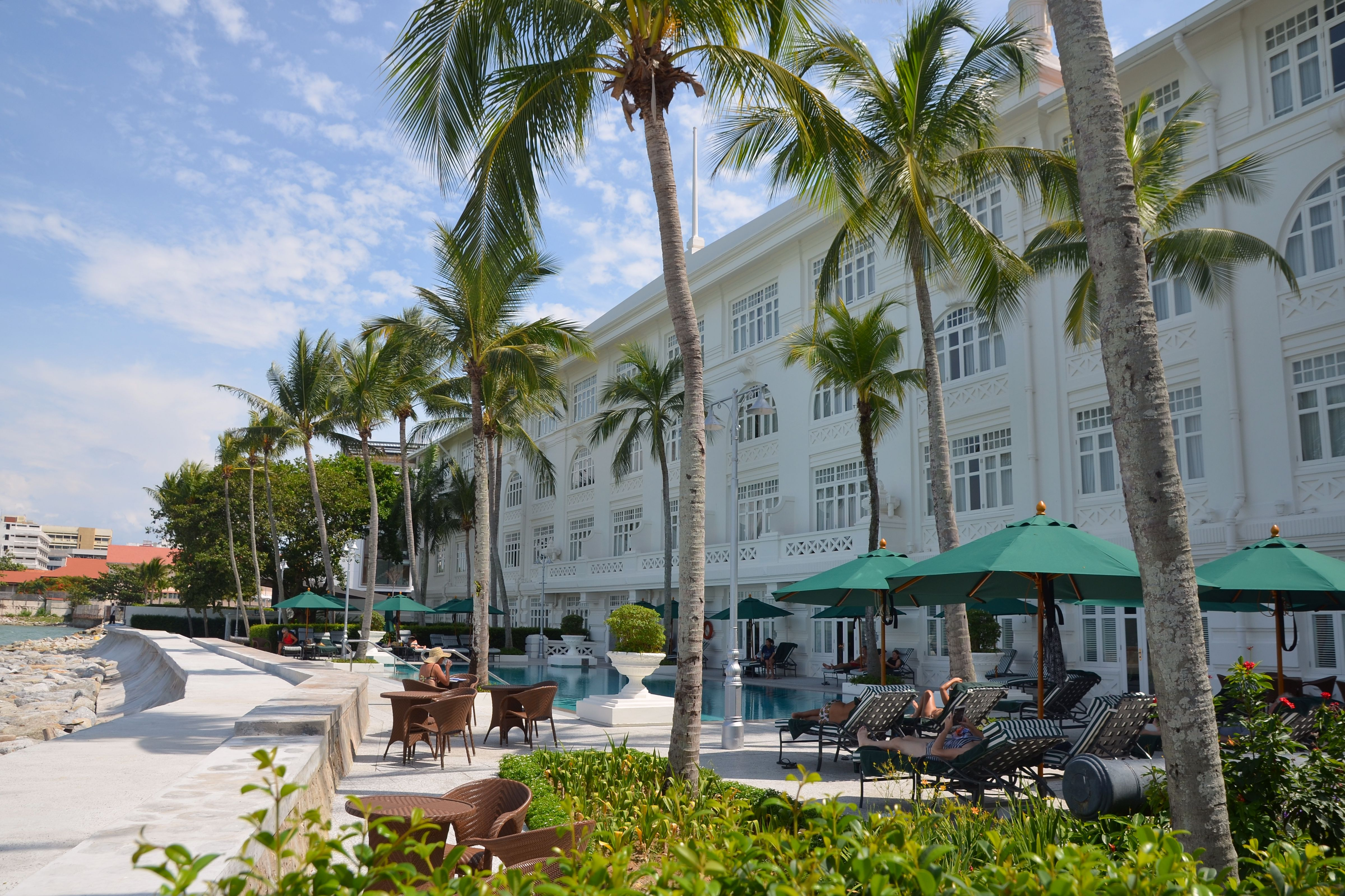 Pool area of the Eastern & Oriental Hotel in Penang, Malaysia.